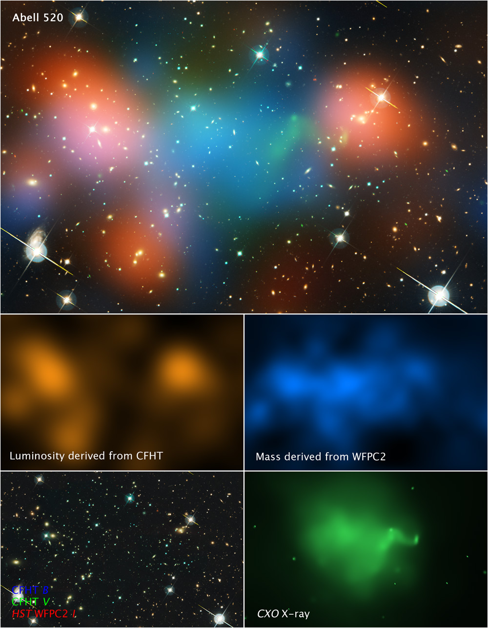 Abell 520, the "Train Wreck" cluster. Composite view showing inferred mass, visible light and X-ray.